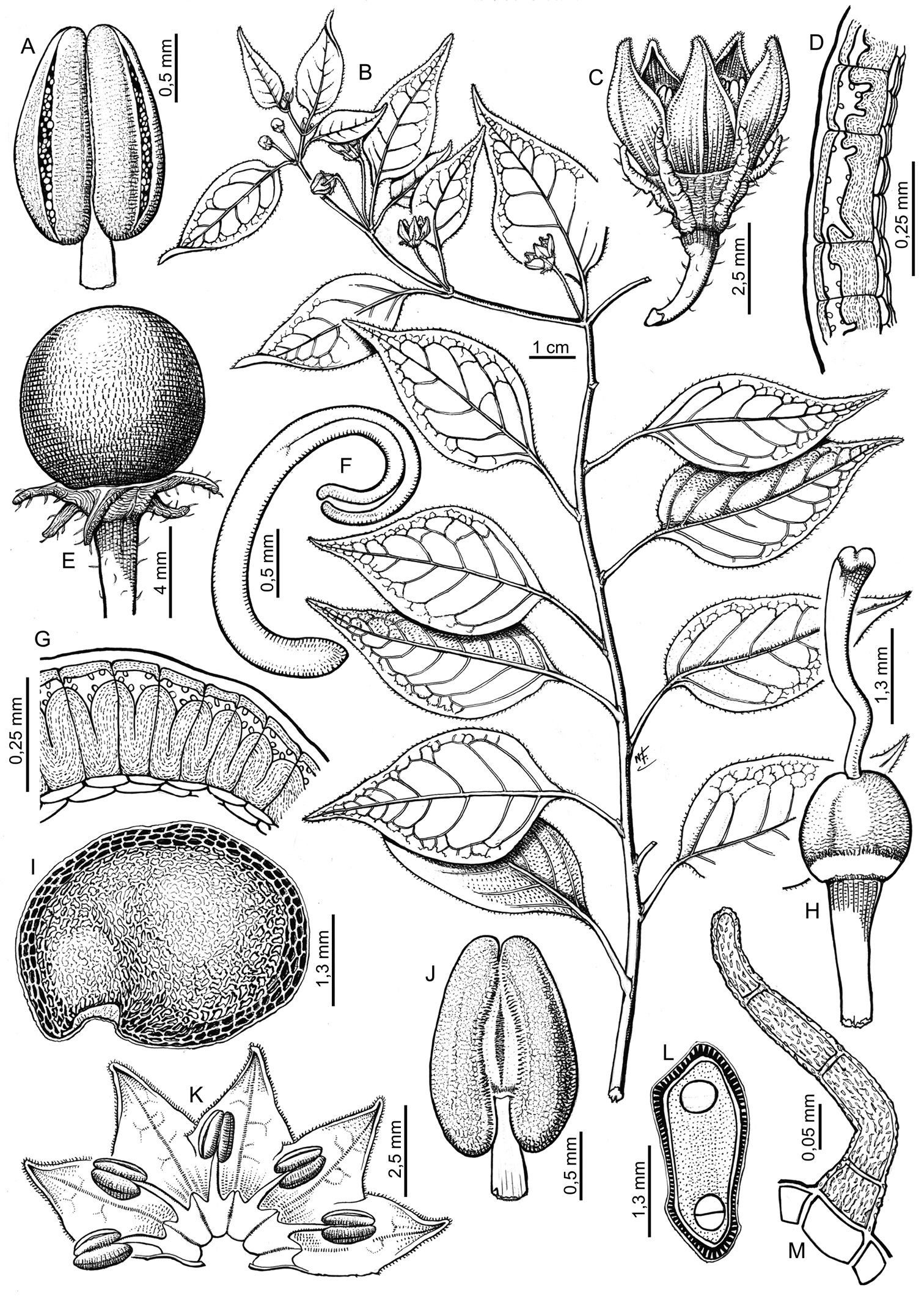 Capsicum eximum. A, J anthers in ventral and dorsal view respectively, B flowering branch, C flower D, G transverse section of the seed coat E fruit F embryo H gynoecium I seed K open corolla L seed in cross section M non-glandular trichome.